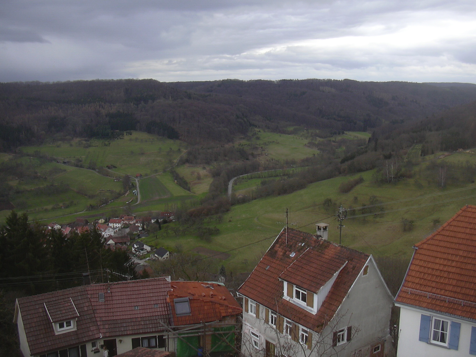 View of the Brettach valley from Maienfels castle, with the village of Brettach below